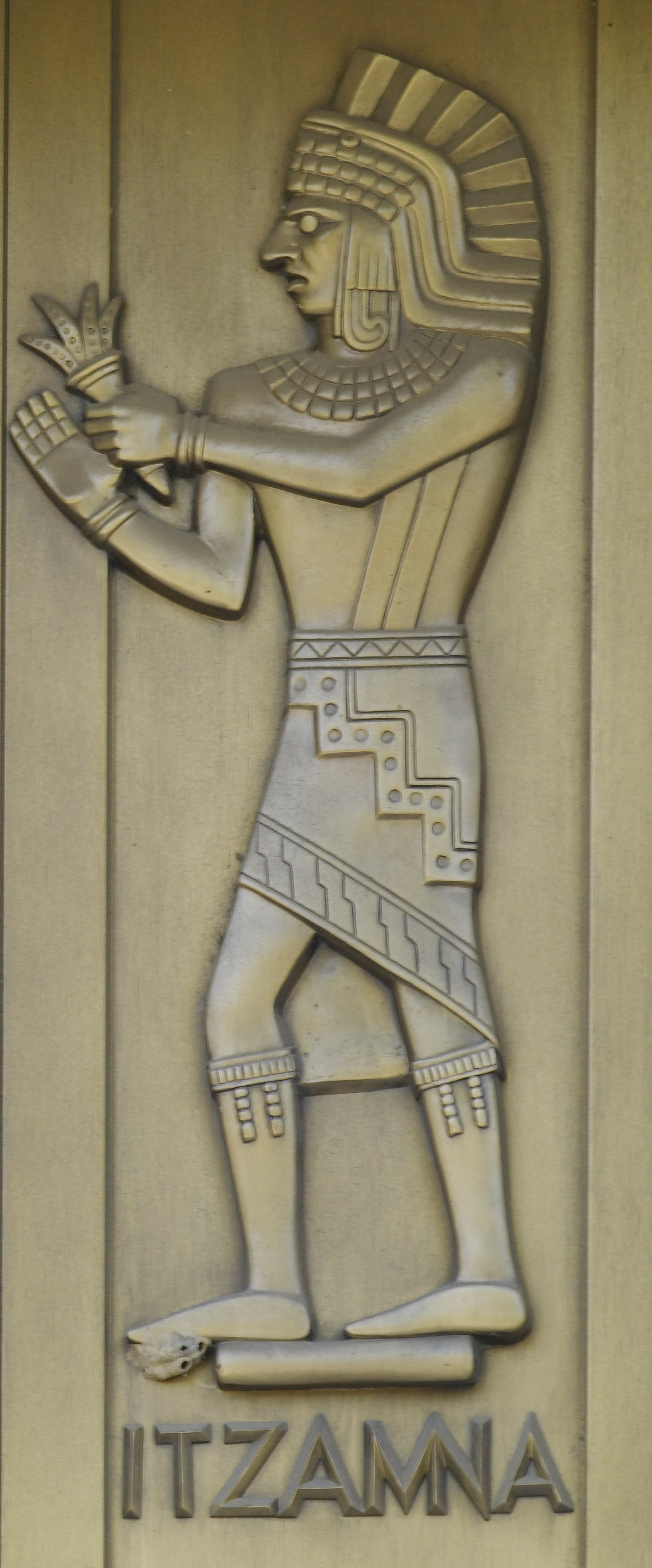 Itzamna, sculpted bronze figure by Lee Lawrie. Door detail, east entrance, Library of Congress John Adams Building, Washington, D.C.